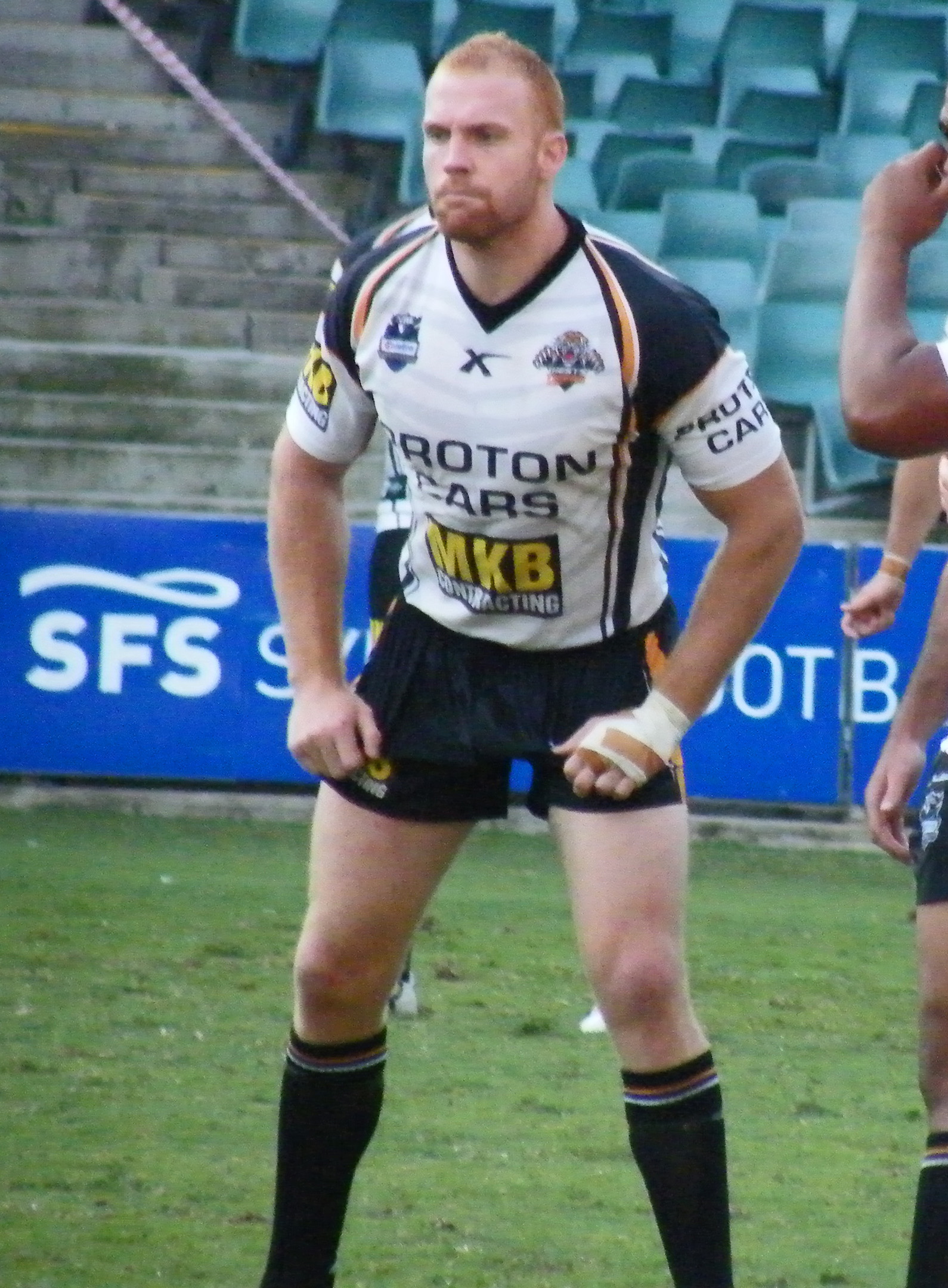 Keith Galloway of the Wests Tigere RLFC.